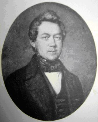 Portrait of Jean Dollfus (1800-1887) by Josué Dollfus (1796-1887).